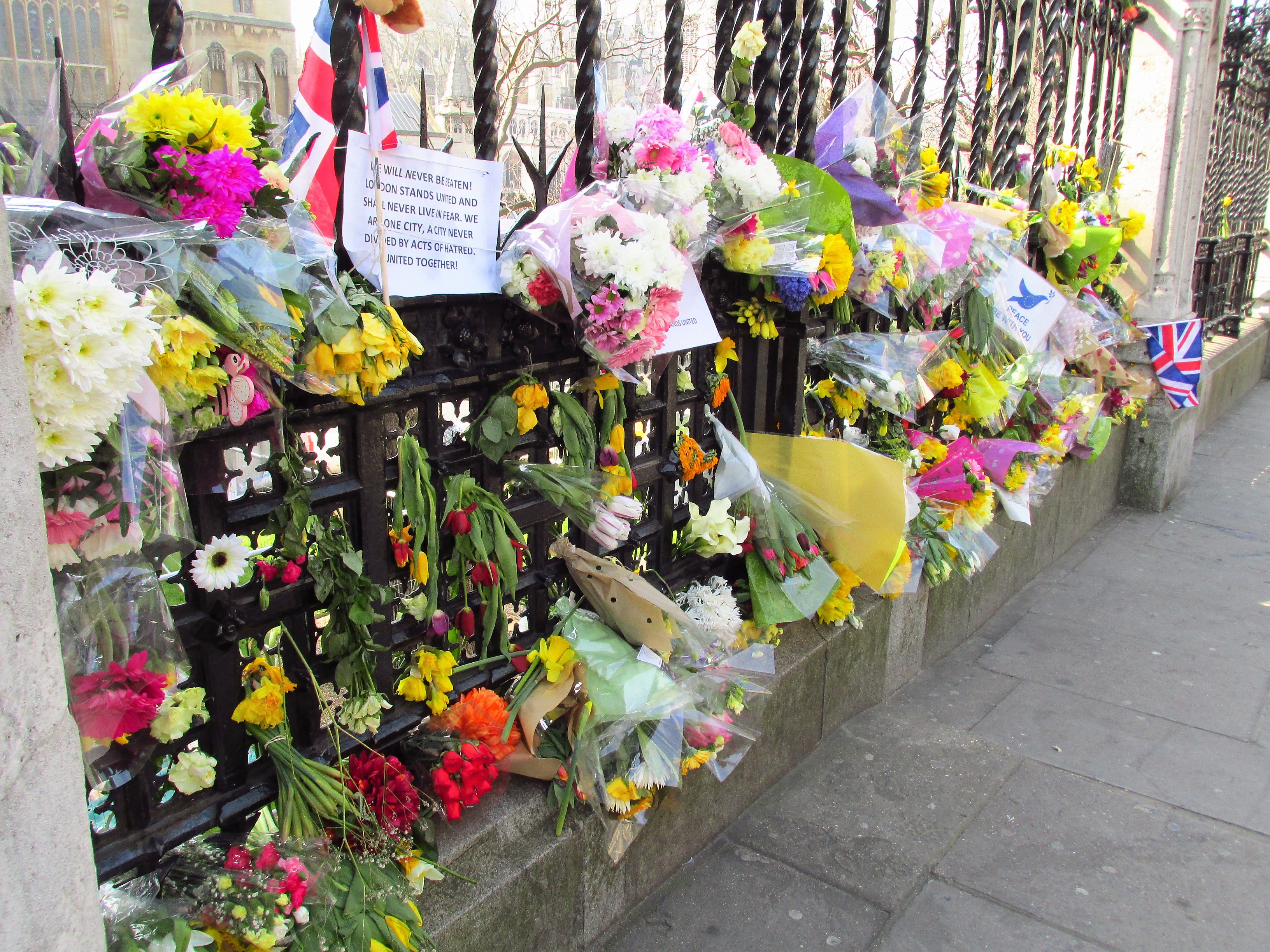 London March 27 2017 (7) Westminster Bridge Flowers